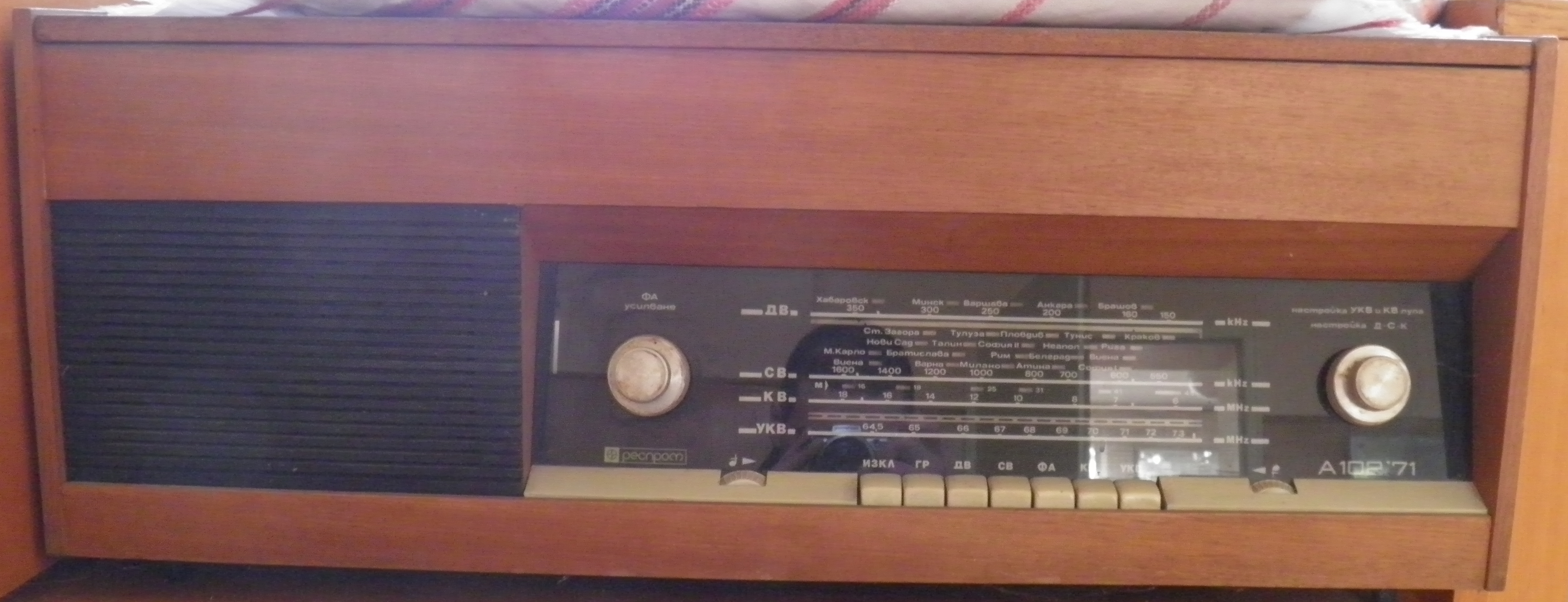 Resprom Akkord A102 - Bulgarian radio made in Veliko Tarnovo, around 1967. The last generation of tube receivers/radiograms.